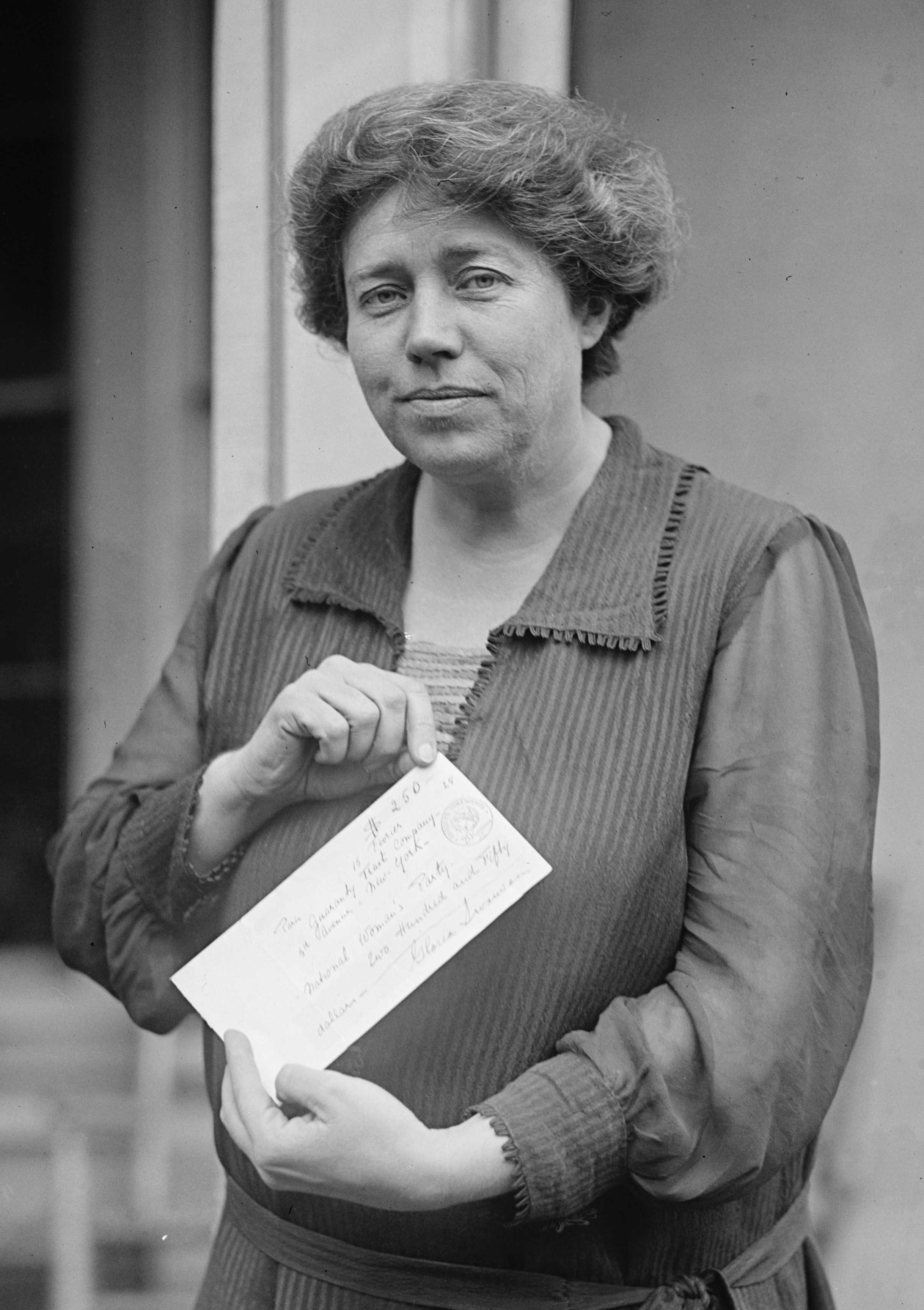 Photo of Margaret Fay Whittemore